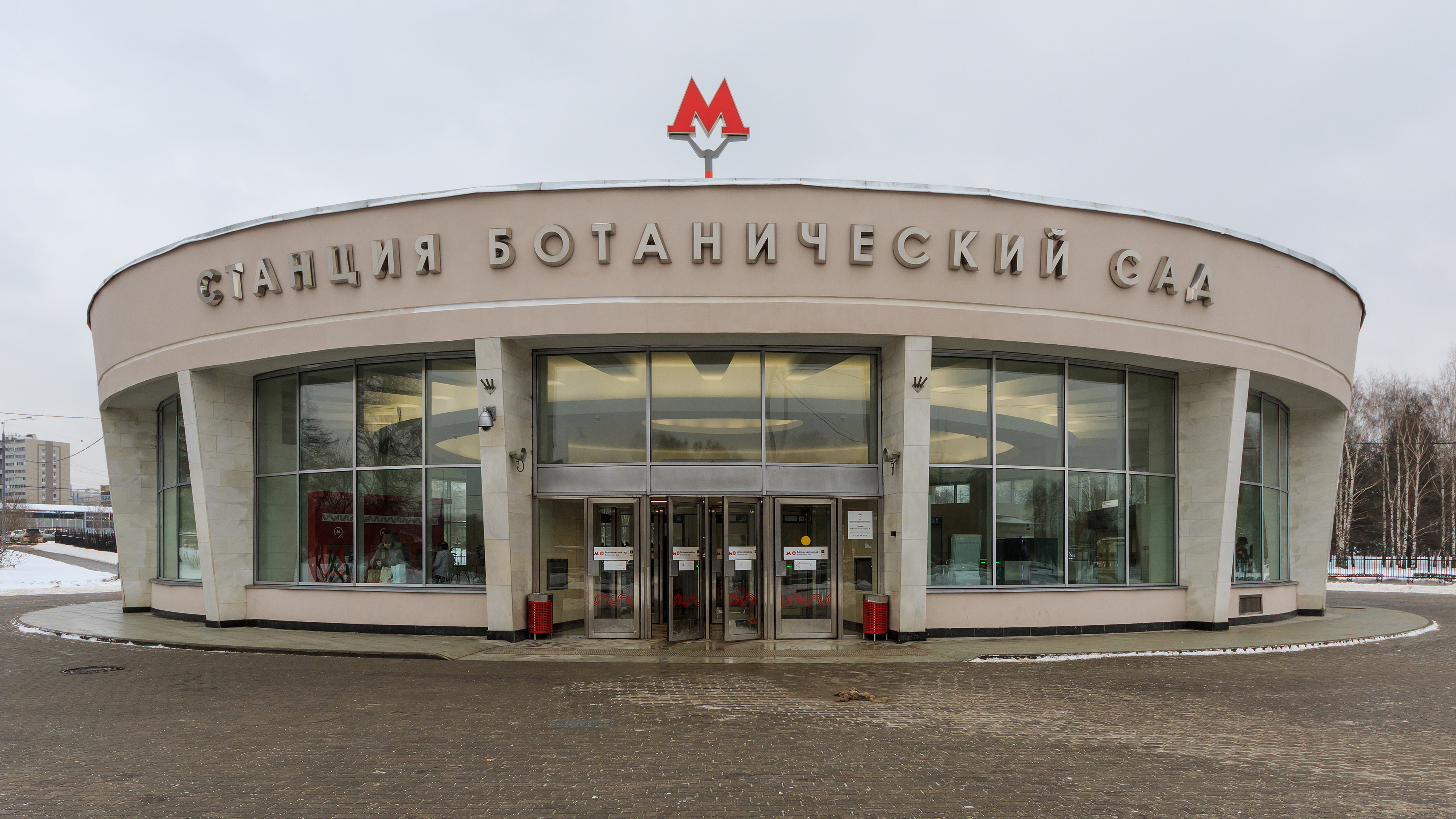 Botanichesky Sad metro station (south entrance building) in Moscow, Russia